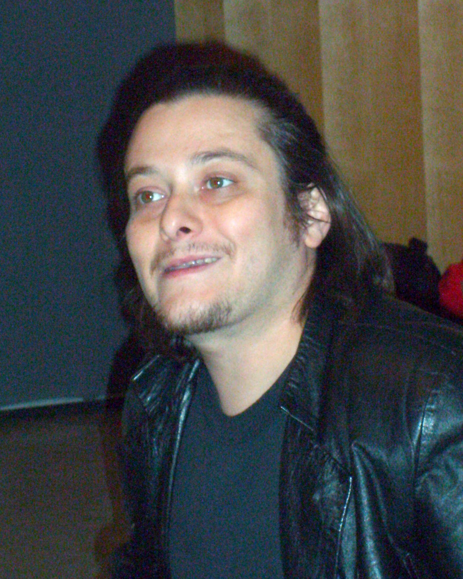 American actor Edward Furlong. Cropped to standard 8x10 "head shot" dimensions for the purposes of article formatting (editors of various wikis have begun removing the uncropped original as unsuitable for the purposes of Wikipedia.)